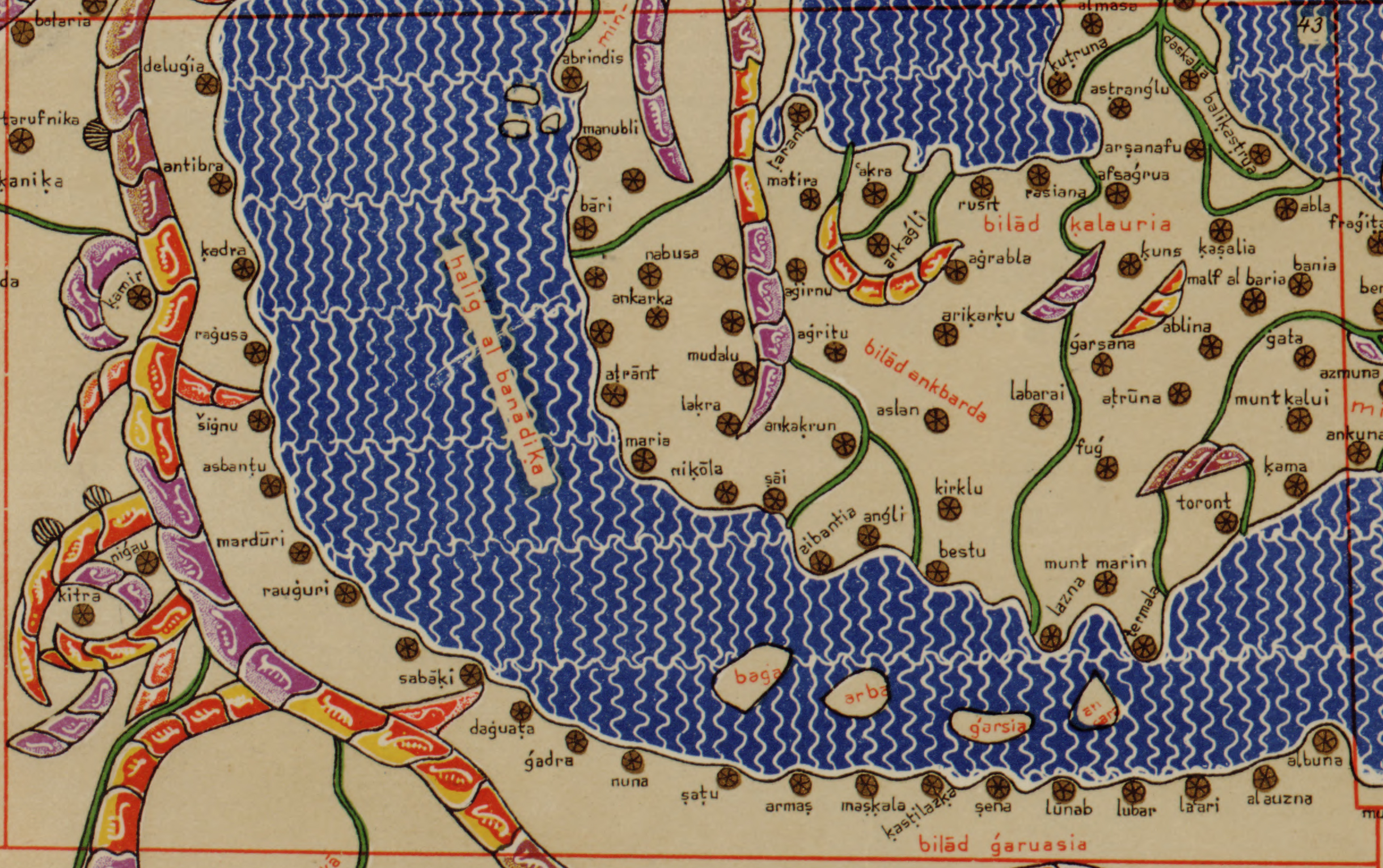 Map of the Mediterranean from Tabula Rogeriana created by Arab geographer Muhammad al-Idrisi in 1154 and copied by Konrad Miller in 1929 who translitterated names in the roman alphabet. The map shows Croatia ("bilad garuasia"), Lombardy ("bilad ankbarda") and Calabria ("bilad kalauria").